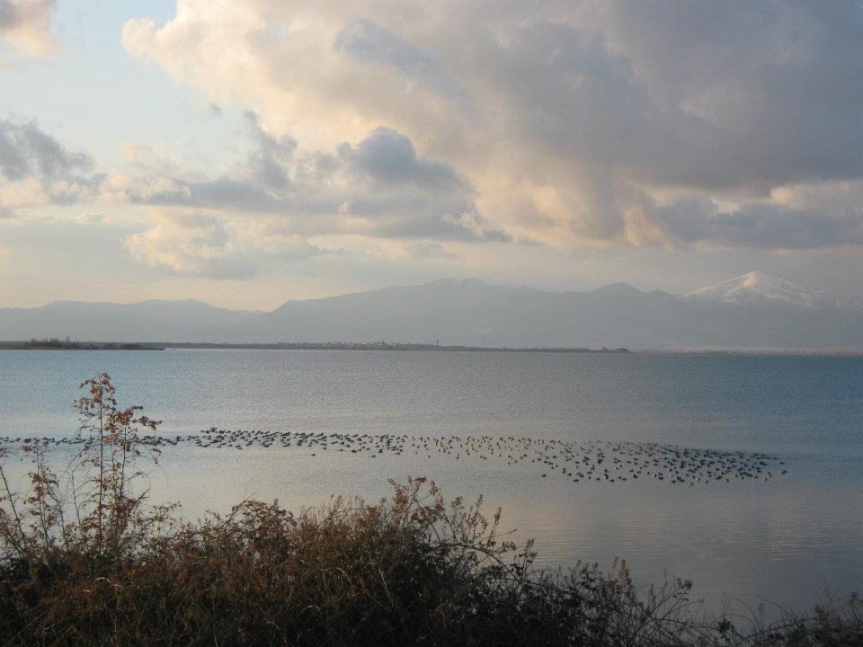 This is a photography of Natura 2000 protected area with ID GR1130010